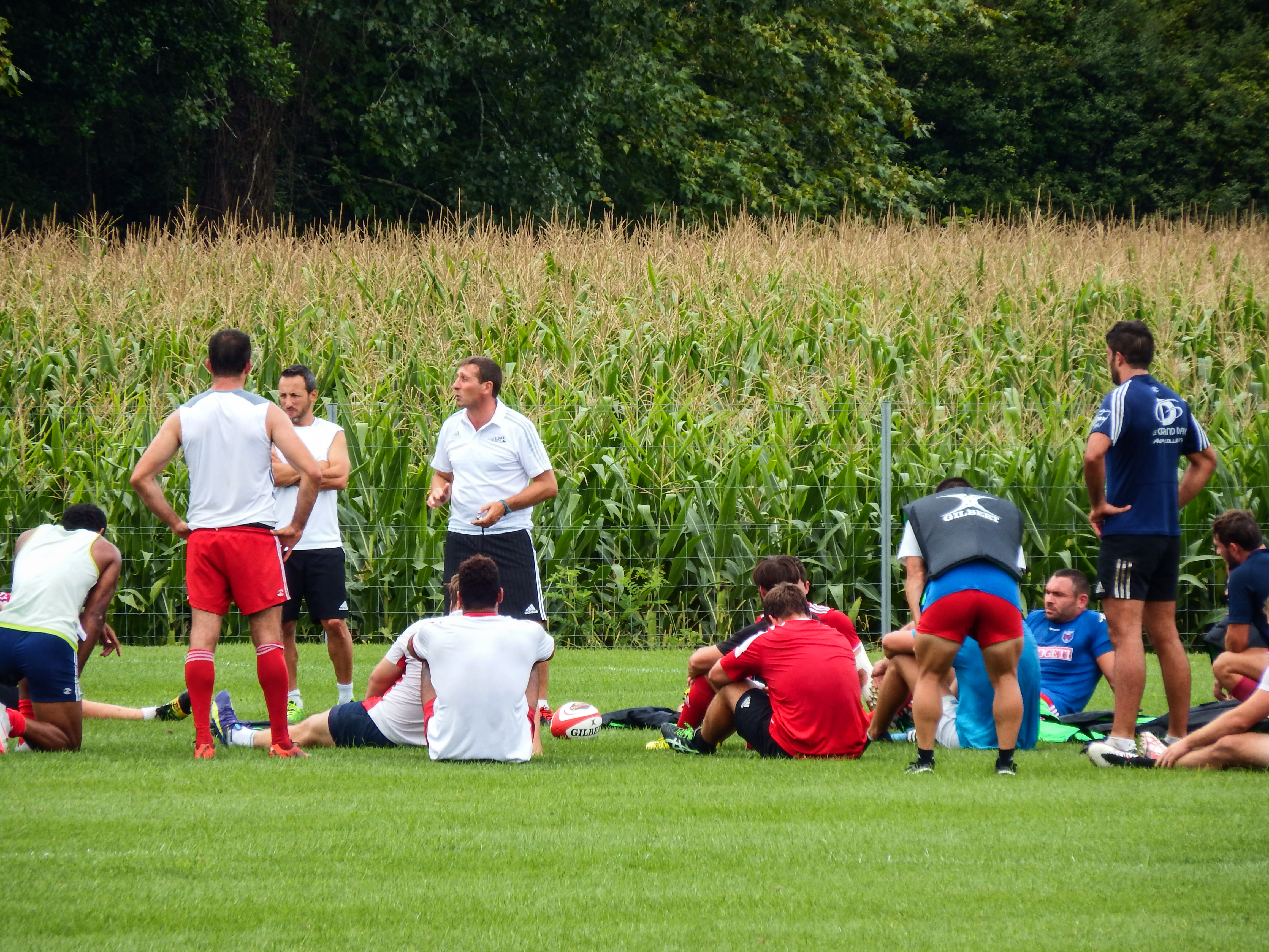 Rugby union training — 18 August 2015, stade Colette-Besson. Match between: US Dax — US Dax